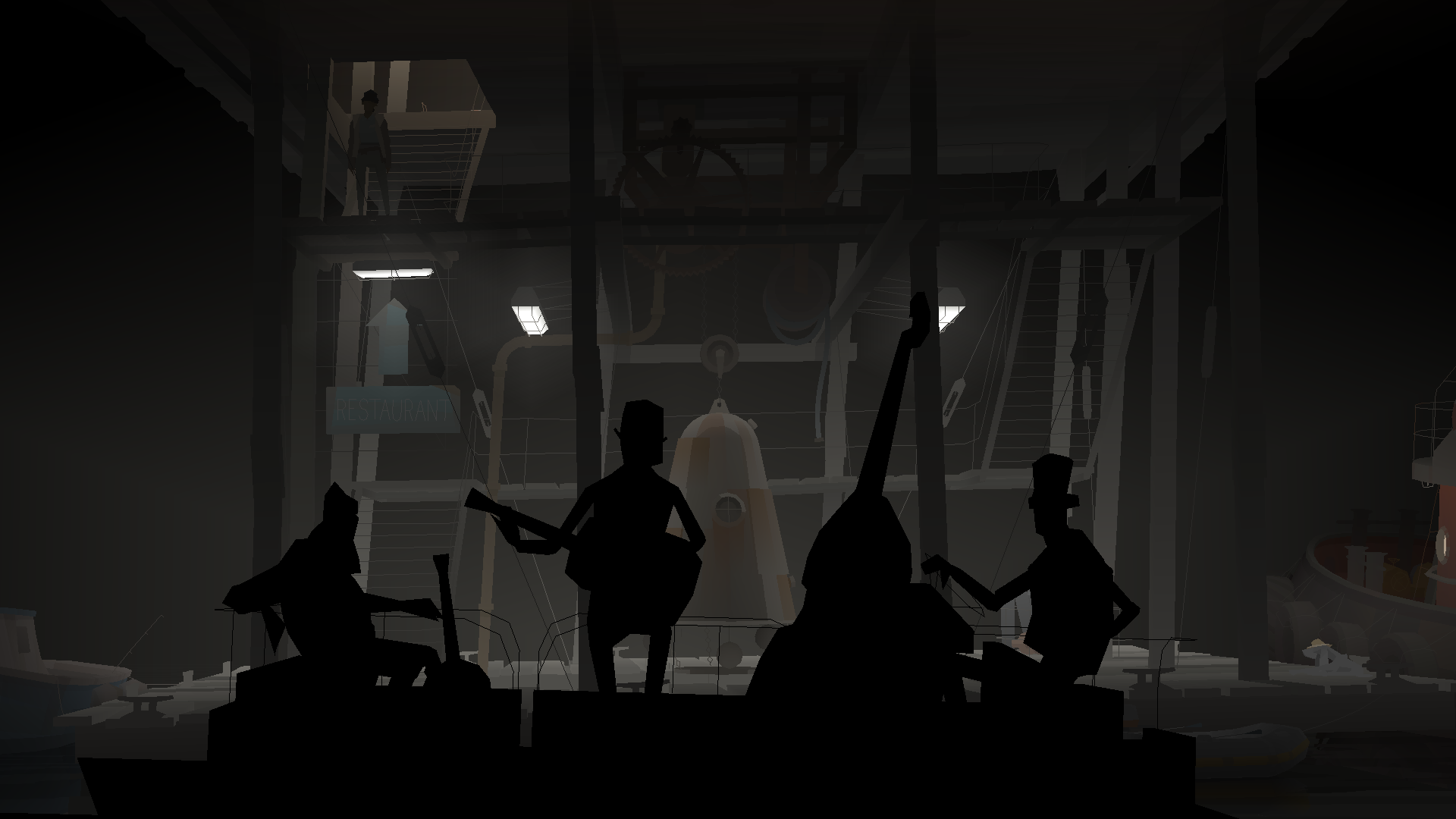 Screenshot of the game Kentucky Route Zero.